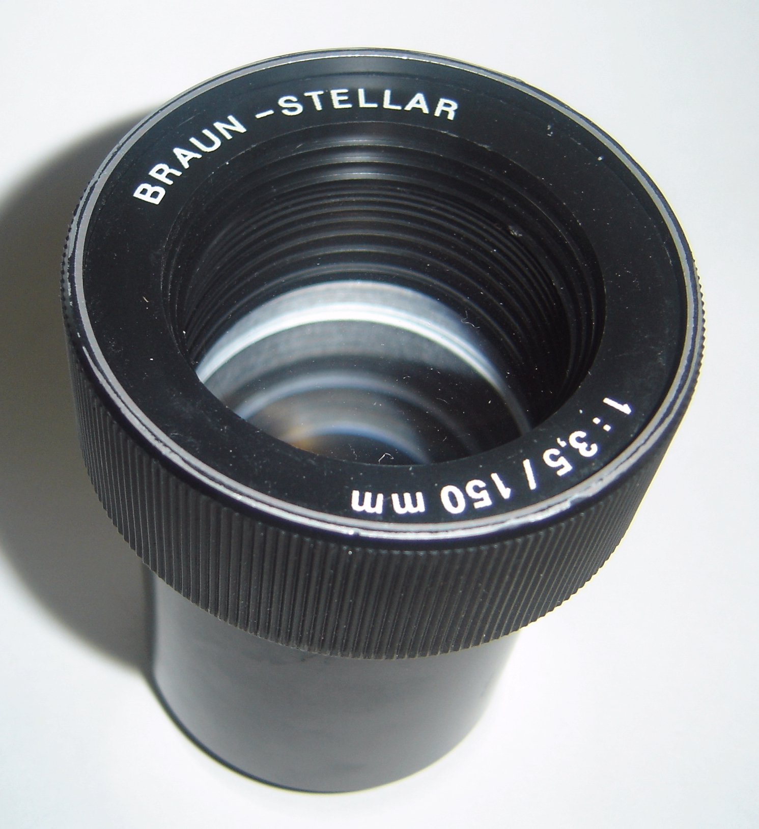 Projection objektive by German optical company Braun (Carl Braun Camerawerk), Nueremberg. Aperture 3.5, focal length 150 mm. (full view)